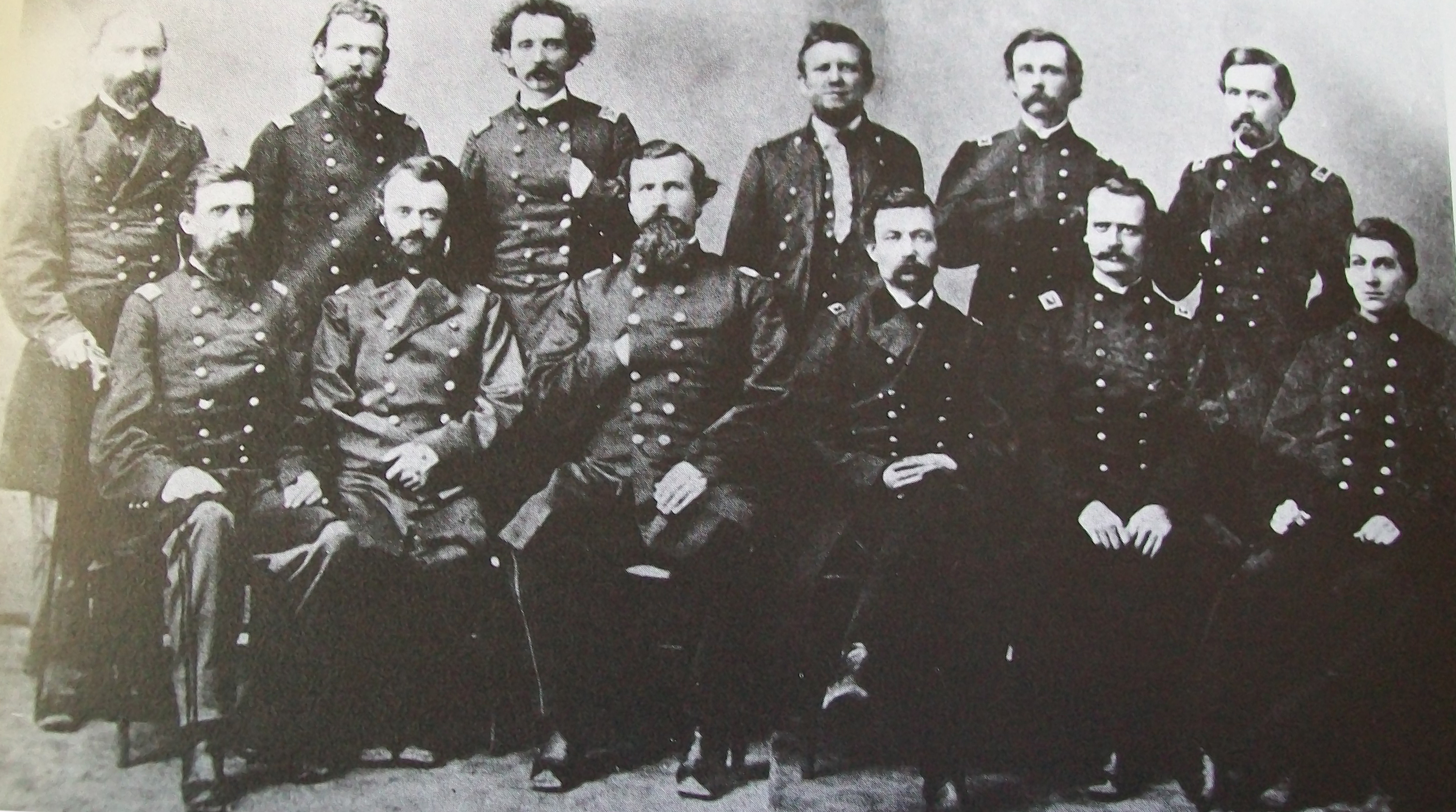 The twelve member military commission that presided over the treason cases resulting in the conviction of members of the Knights of the Golden Circle. Upon appeal the decision was overturned by the US Supreme Court in Ex Parte Milligan